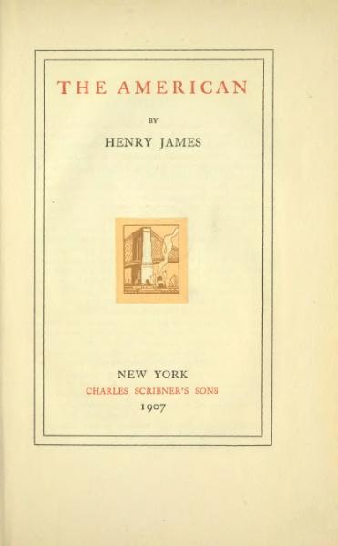 Cover of The American by Henry James, taken from ][:File:The Novels and Tales of Henry James, Volume 2 (New York, Charles Scribner's Sons, 1907).djvu|this book